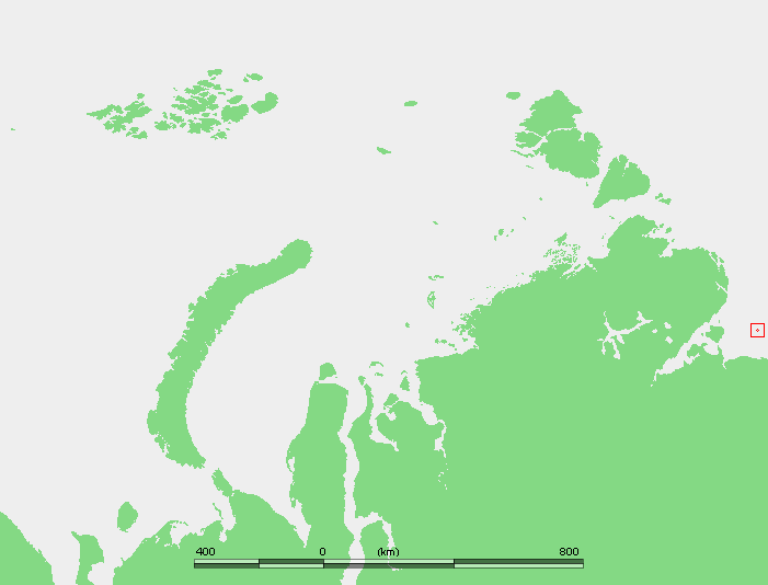 Location of Peschanyy Island, Russia